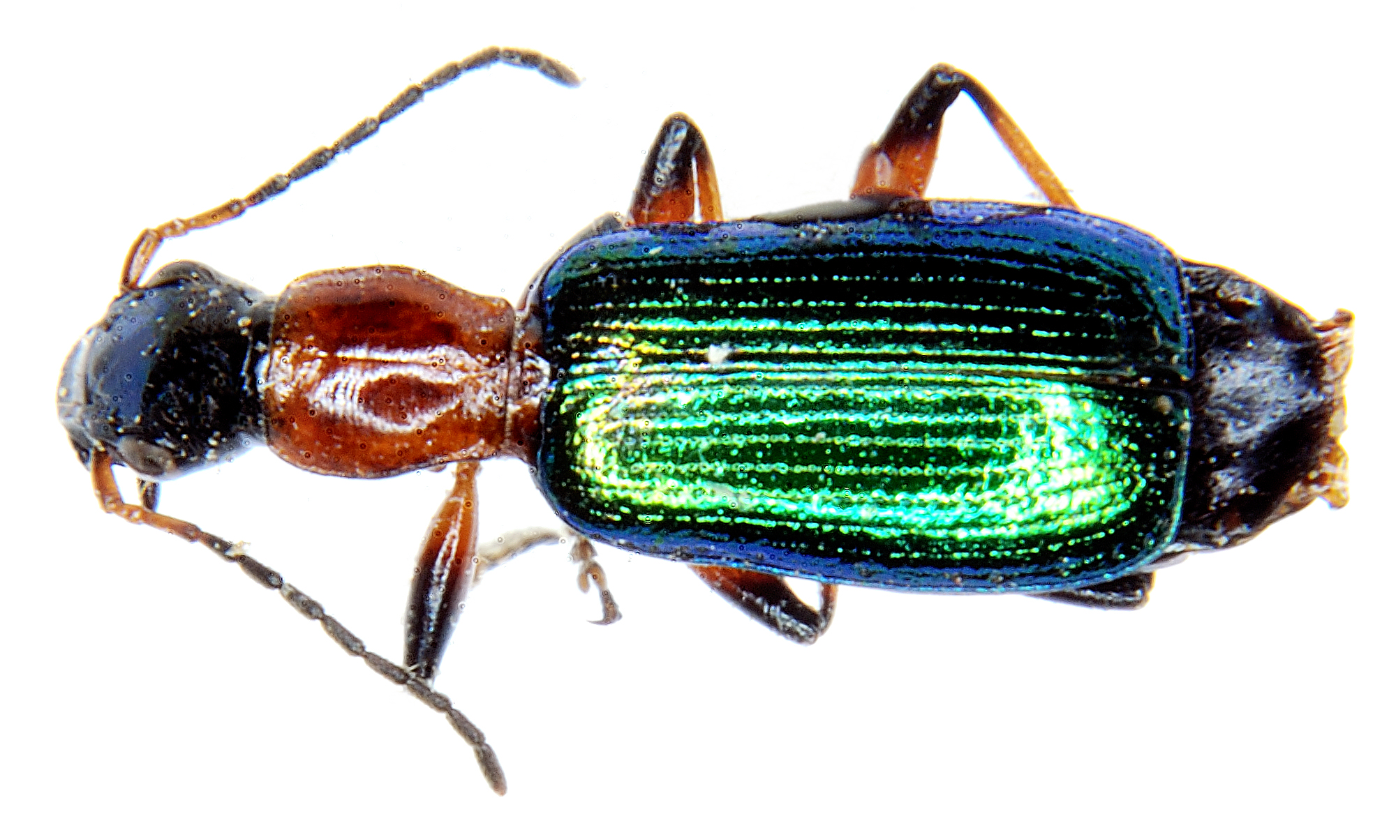 Specimen of a carabid beetle, Calleida punctata (LeConte), collected in USA: Connecticut: West Haven, 4-Jun-1985, collector M.K. Oliver, in collection of same.